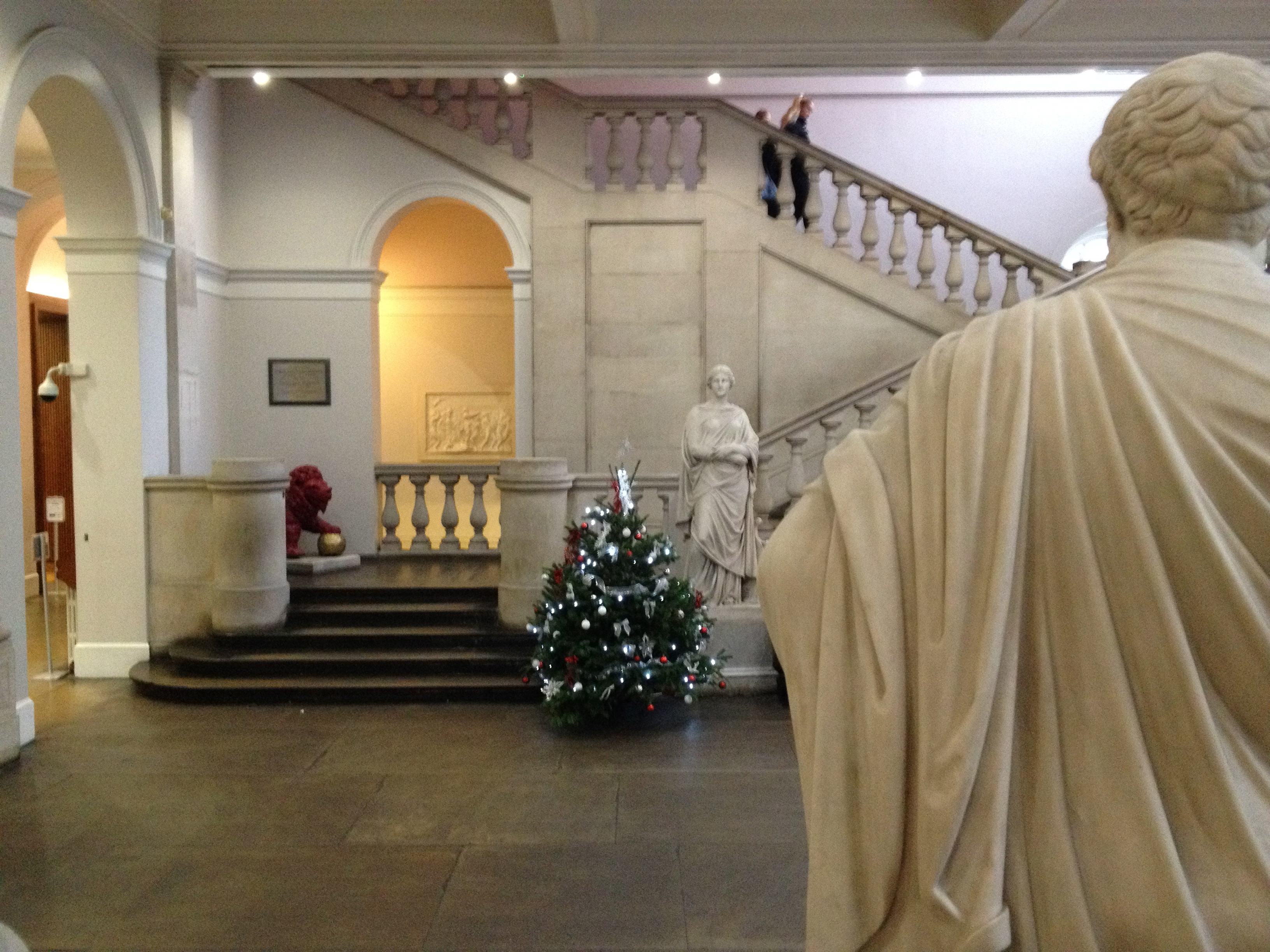 Sappho and Sophocles, King's College London main hall